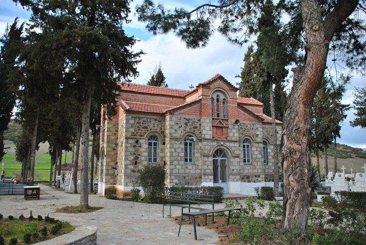 Perivoli Domokou